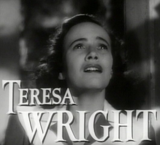 Cropped screenshot of Teresa Wright from the trailer for the film Shadow of a Doubt.